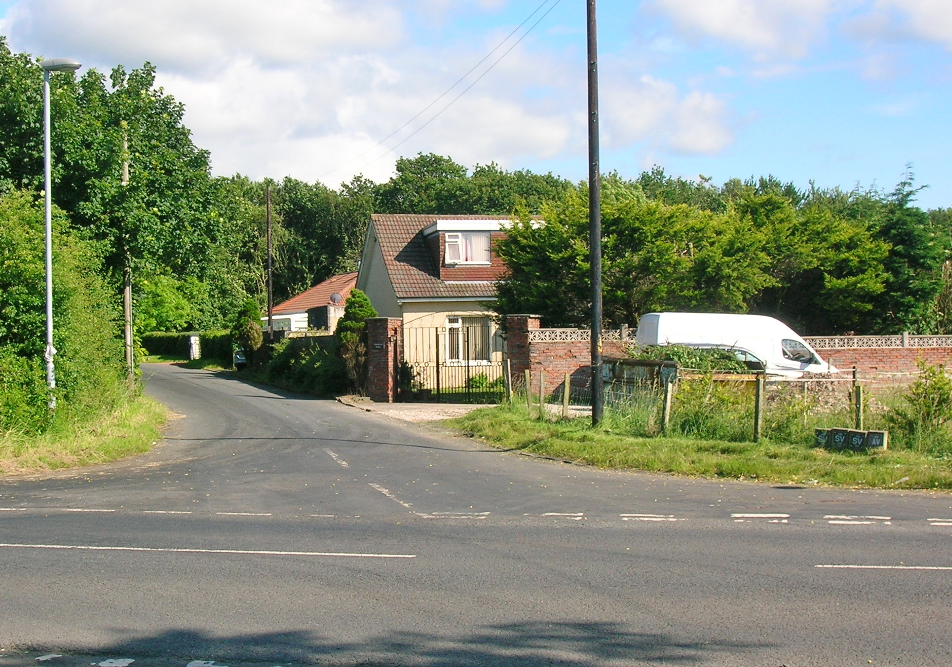 Sevenacres House as seen from Lylestone Terrace, Kilwinning, North Ayrshire, Scotland.